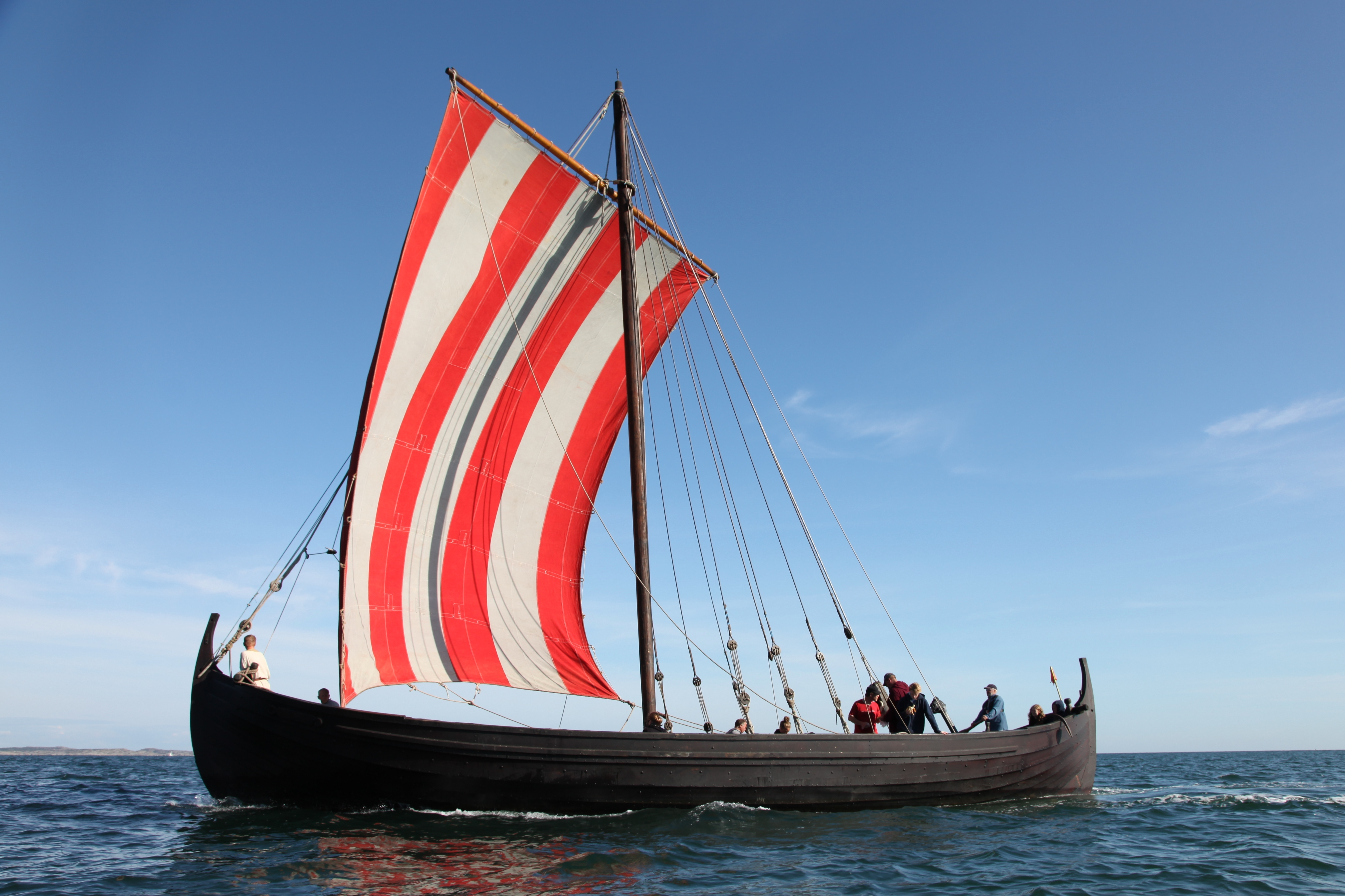 Vidfamne 2011